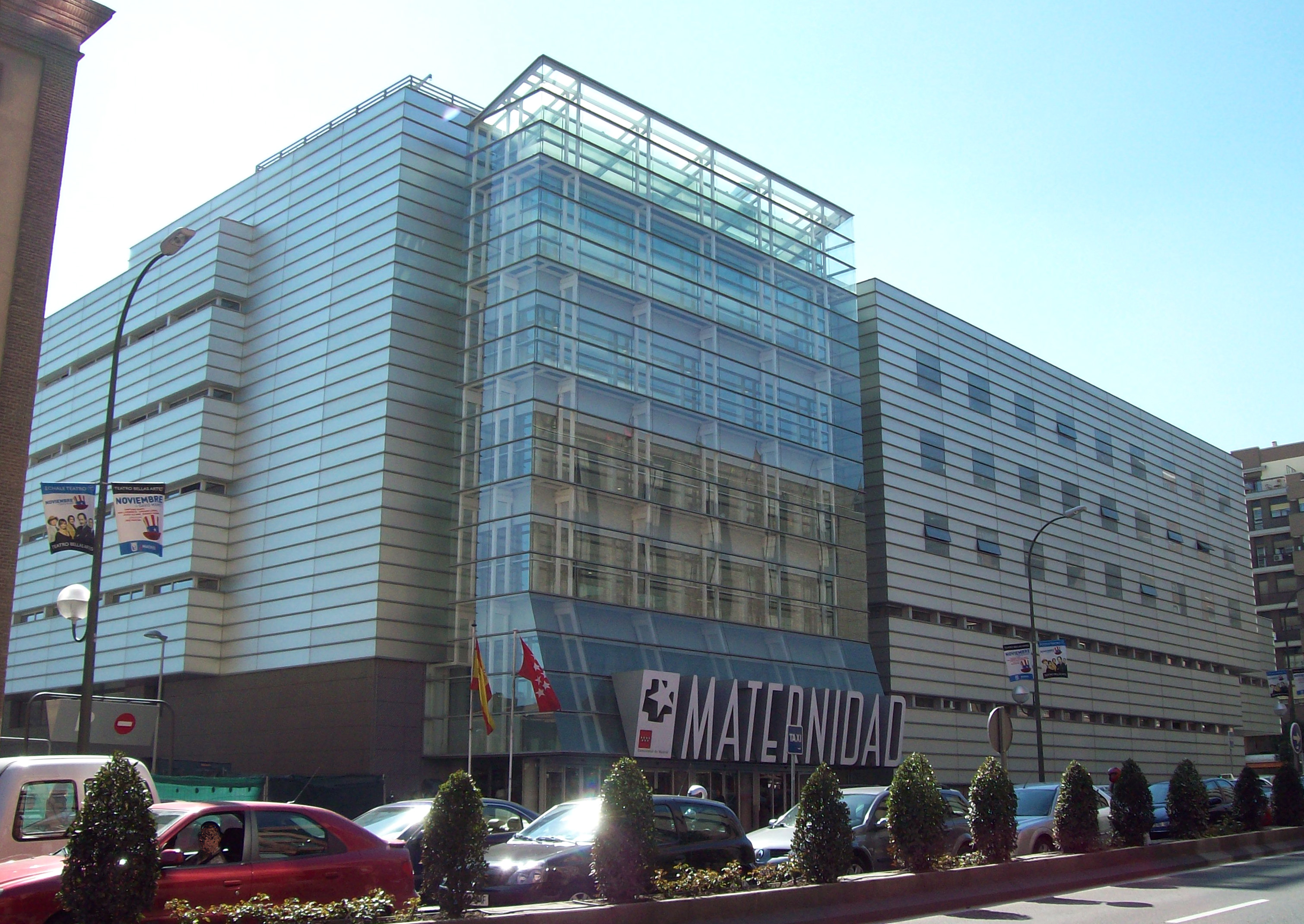 View, from the north-east angle, of Gregorio Marañón Maternity and Children's Hospital in Madrid (Spain), at 48 Calle de O'Donnell ("O'Donnell Street") in Retiro district. Building was projected in 1996 by architect Rafael Moneo, and built from 2000 to 2003.